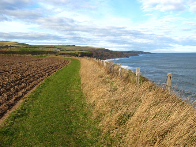 Berwickshire Coastal Path at Marshall Meadows Coastal path north of Berwick-upon-Tweed. At this point the path follows the line of the East Coast Rail line and the border between England and Scotland is 0.5 mile further on.